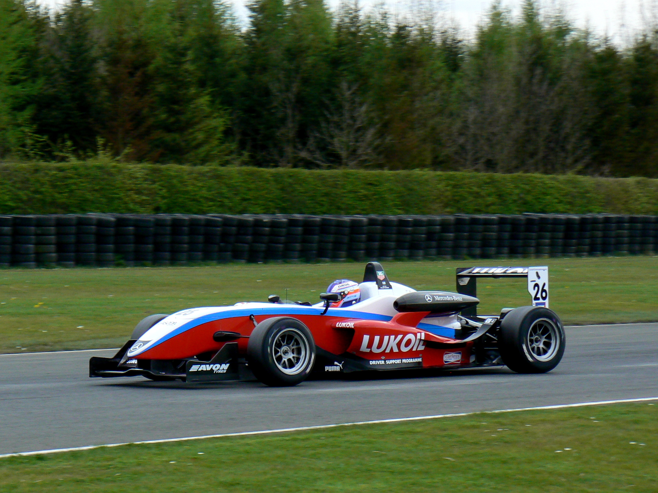 Atte Mustonen driving for Räikkönen Robertson at the Croft round of the 2008 British Formula Three Championship.